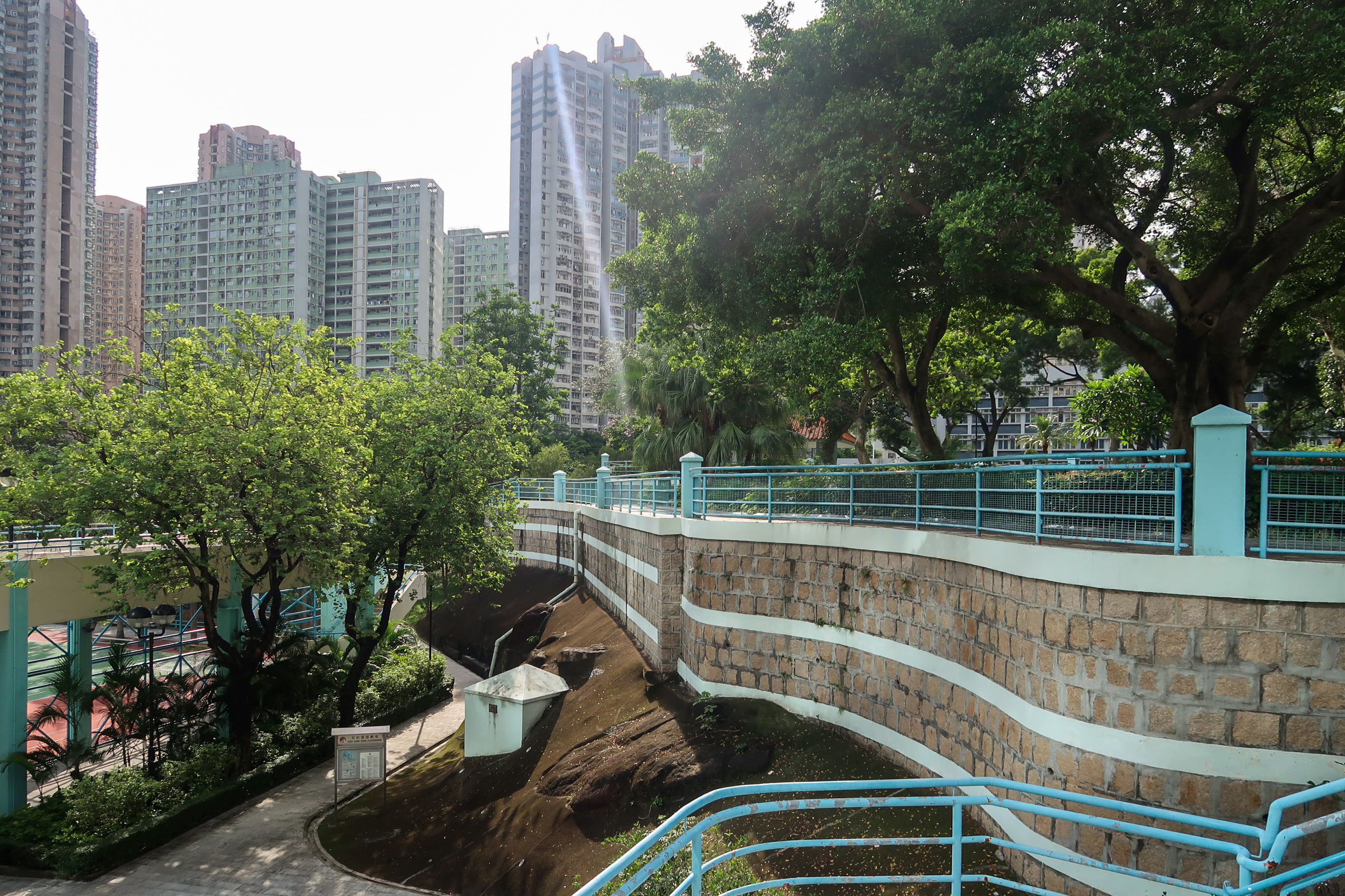 Choi Hung Road Playground Kai Tak Playground structure